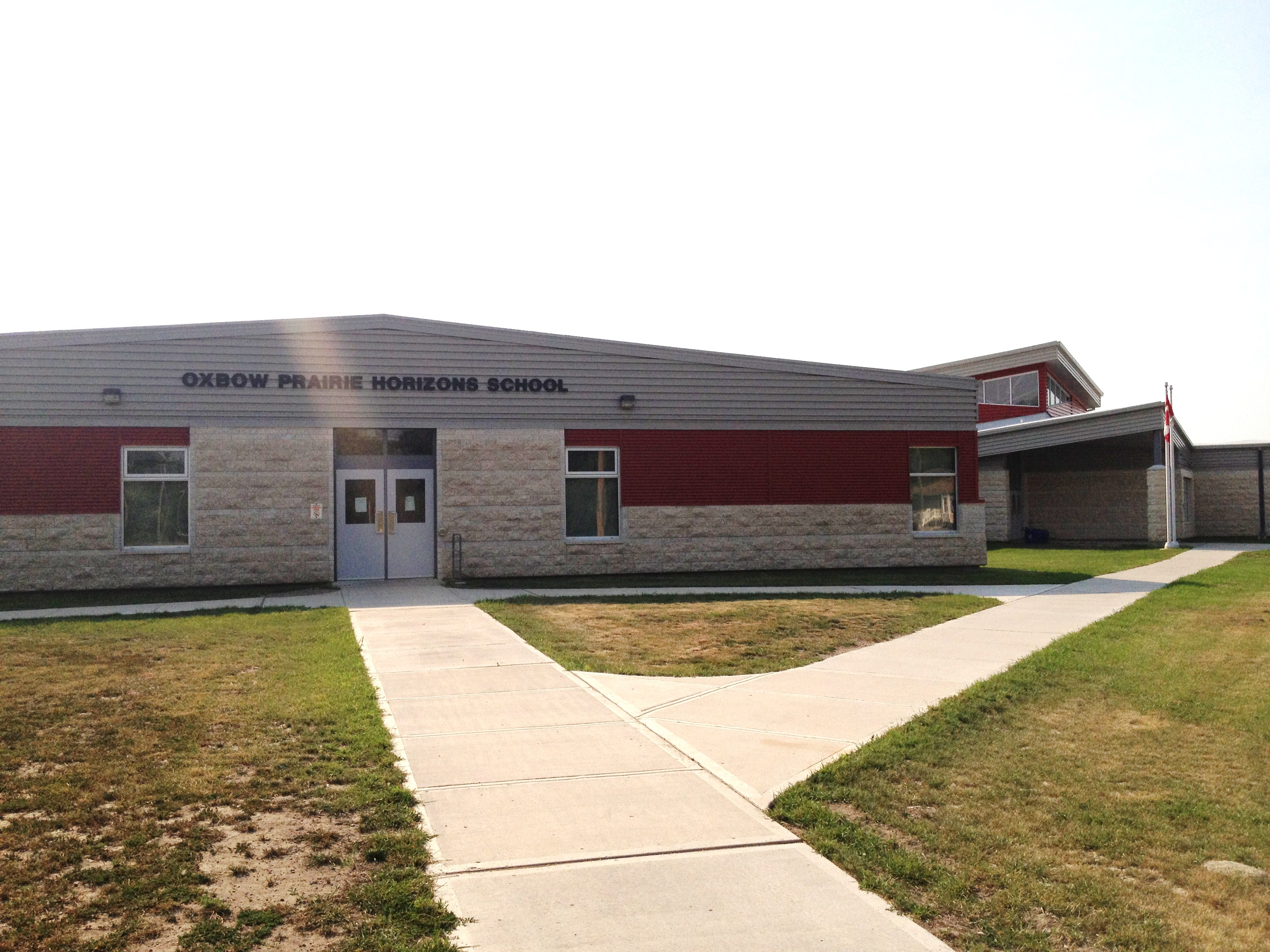 Oxbow Prairie Horizons School, the K-12 school in Oxbow, Saskatchewan